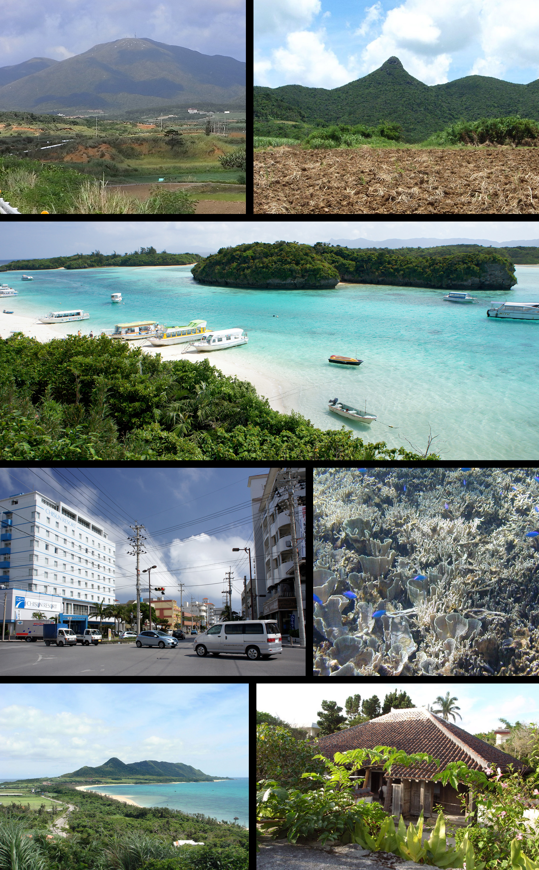 Ishigaki montage